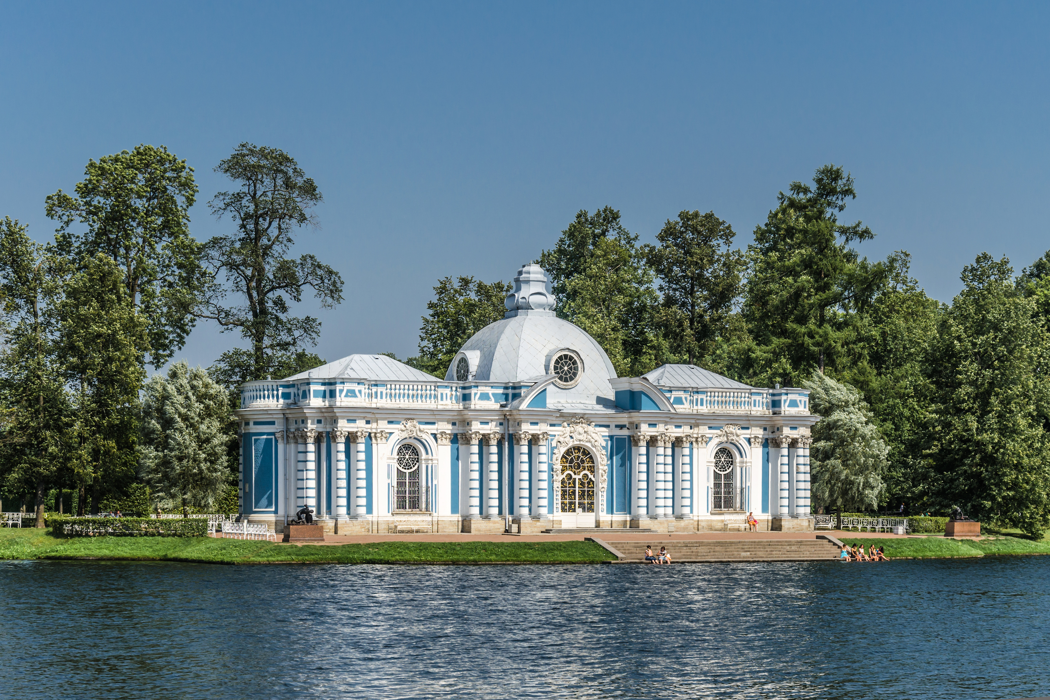 Grotto pavillion in Catherine park of Tsarskoe Selo, Saint Petersburg, Russia.